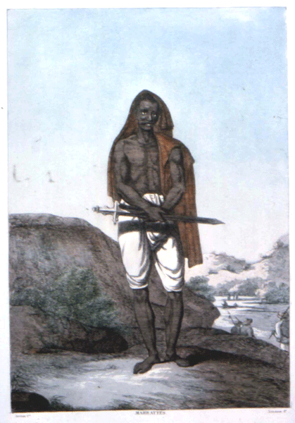 Maratha soldier XVIII century